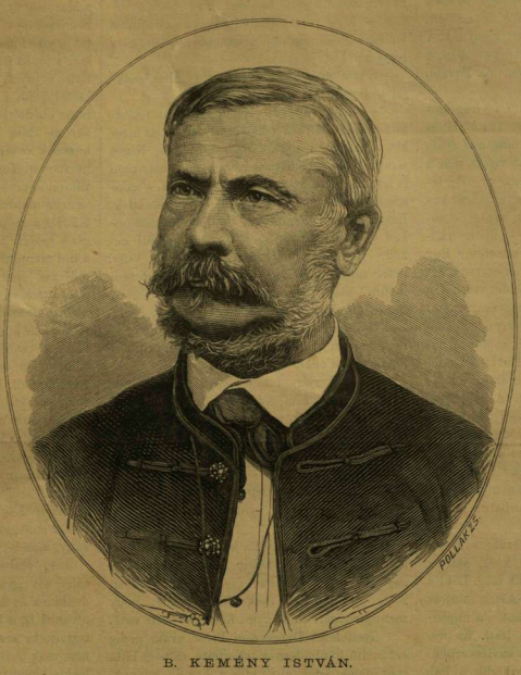 Portrait of Kemény István